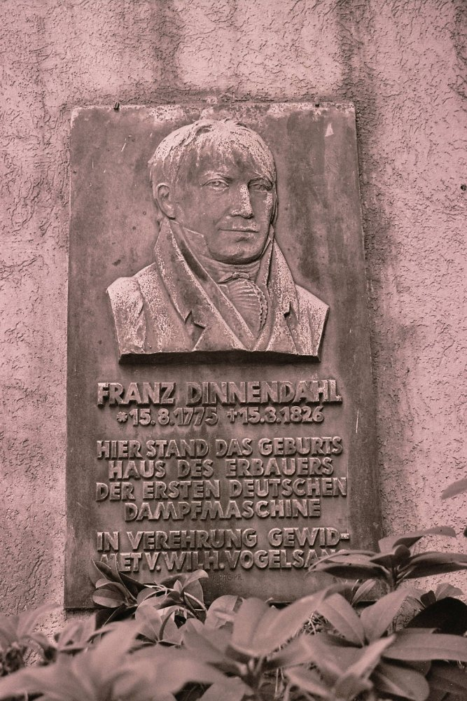 Medallion for Franz Dinnendahl in memoria to the first steam machine engineer in Germany who built an operating steam machine; Horster Mühle